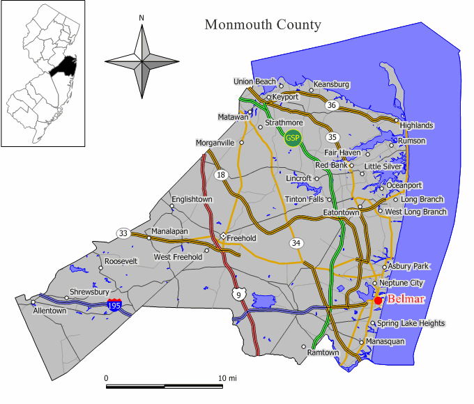 Source: Jim Irwin